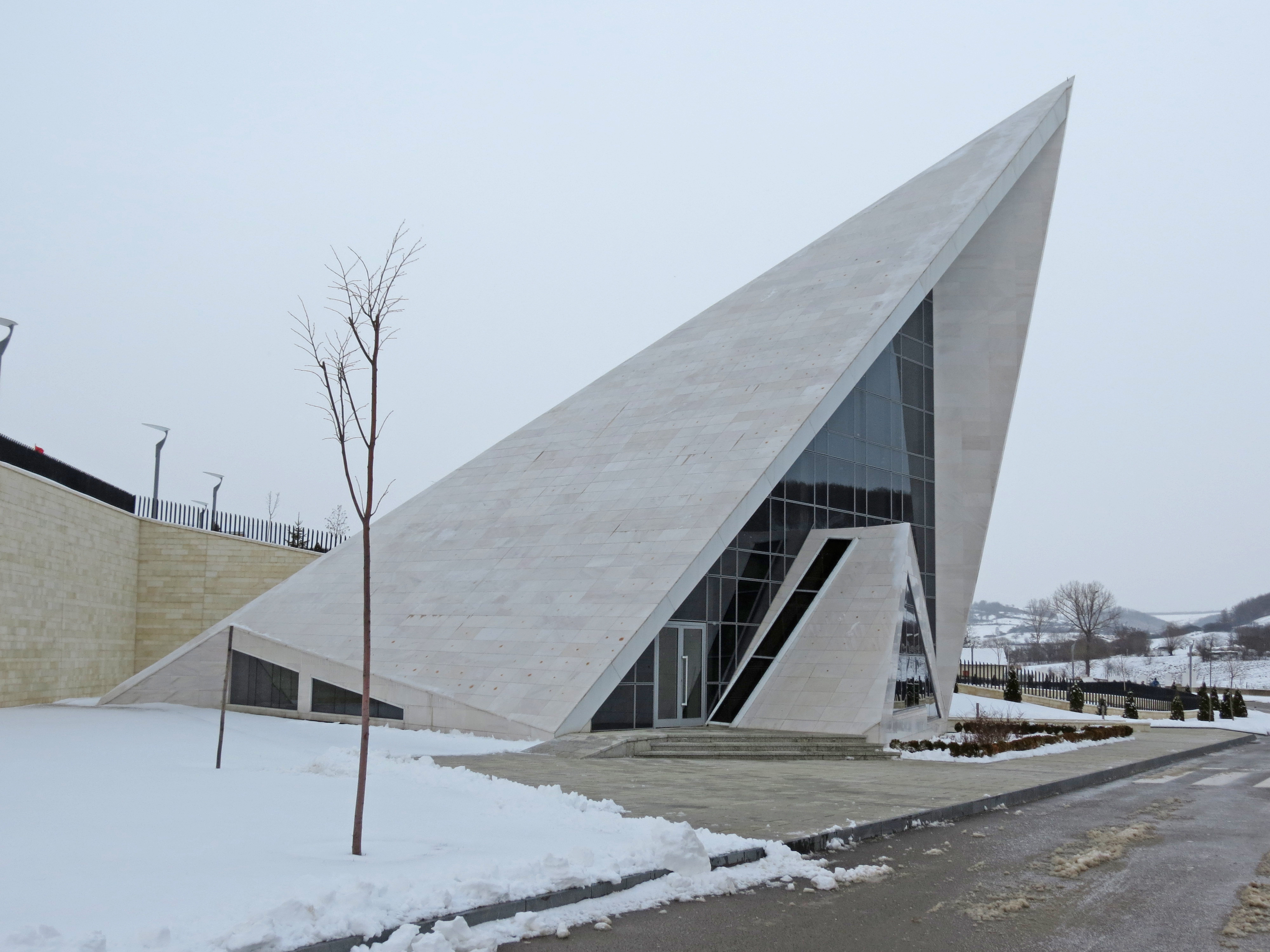 Adem Jashari Memorial Complex in Prekaz, Kosovo, with the house in which Adem Jashari and more than 60 other people were murdered in the Attack on Prekaz (1998).